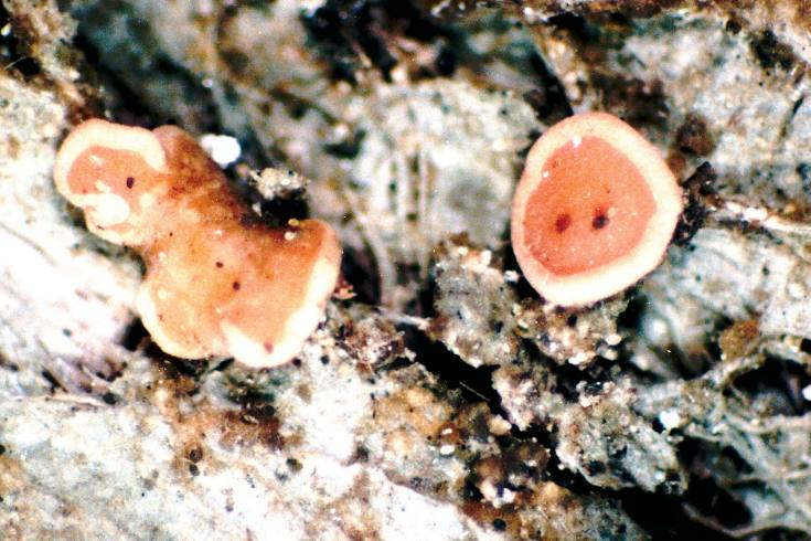 Coenogonium luteum (Dicks.) Kalb & Lücking, 2000 [Syn. Dimerella lutea (Dicks.) Trevis., 1880] (photograph of a herbarium specimen taken through a dissecting microscope (x34) showing apothecia with orange disks and pale margins) Growing on Thuja bark in swamp, at breast height, near Iron Bridge at Carp Creek, off Hogsback Road, 0.4 mile E of junction W Burt Lake Road, Cheboygan County, Michigan, USA; collected and identified by Richard E. Riefner (No. 81-357, 29 Jun 1981); specimen is now in the Lichen Herbarium of the New York Botanical Garden.